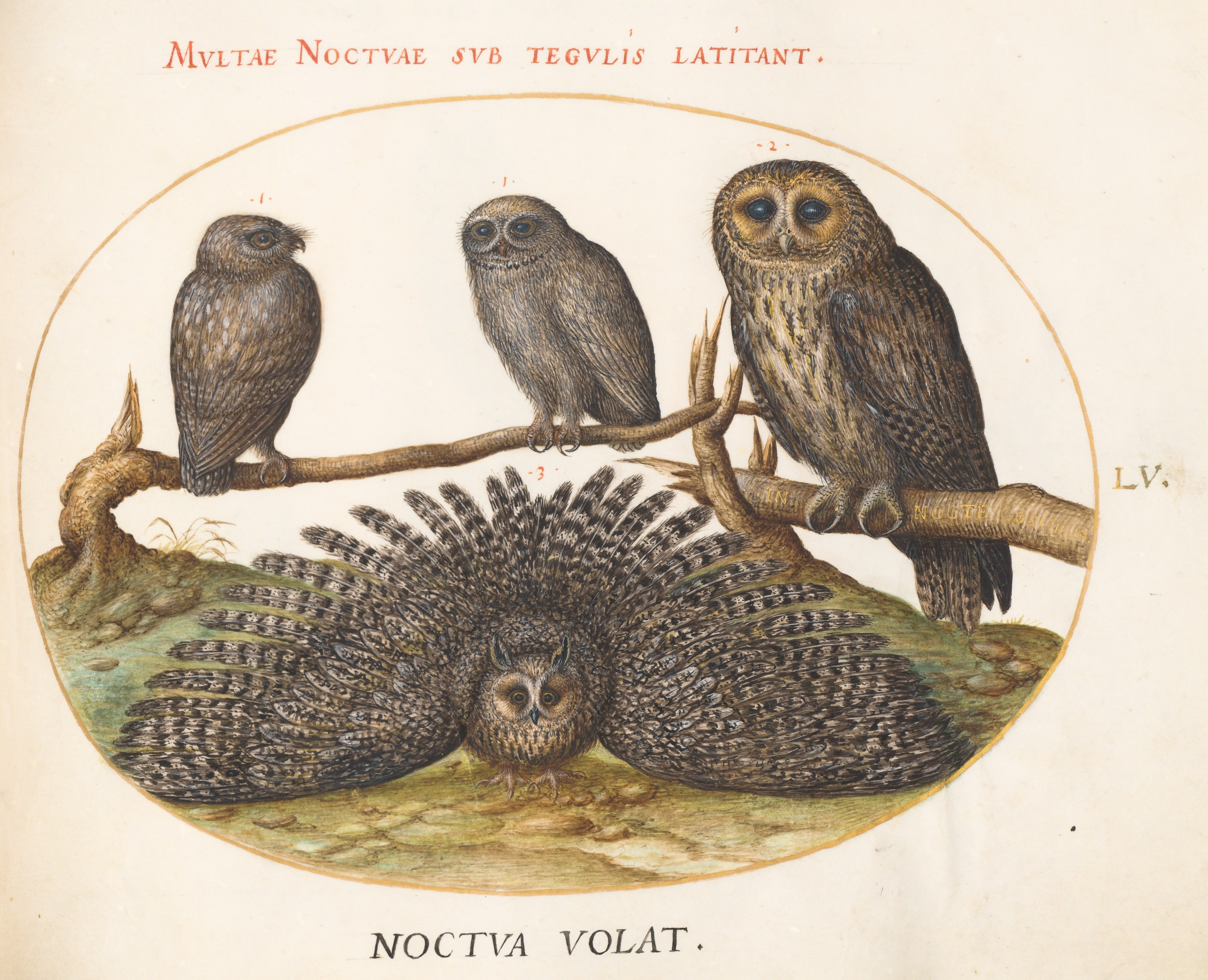 Joris Hoefnagel, Animalia Volatilia et Amphibia (Aier)- Plate LV, watercolor and gouache, with oval border in gold, on vellum, page size (approximate): 14.3 x 18.4 cm, National Gallery of Art Washington From the series called Animalia rationalia et insecta (ignis); Animalia quadrupedia et reptilia (terra) ; Animalia aquatilia et conchiliata (aqua); and Animalia volatilia et amphibia (aier) (also referred to as the Four Elements)